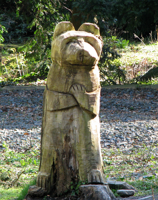 Bear statue, Mount Stewart The carved statue of a bear in the grounds of Mount Stewart.